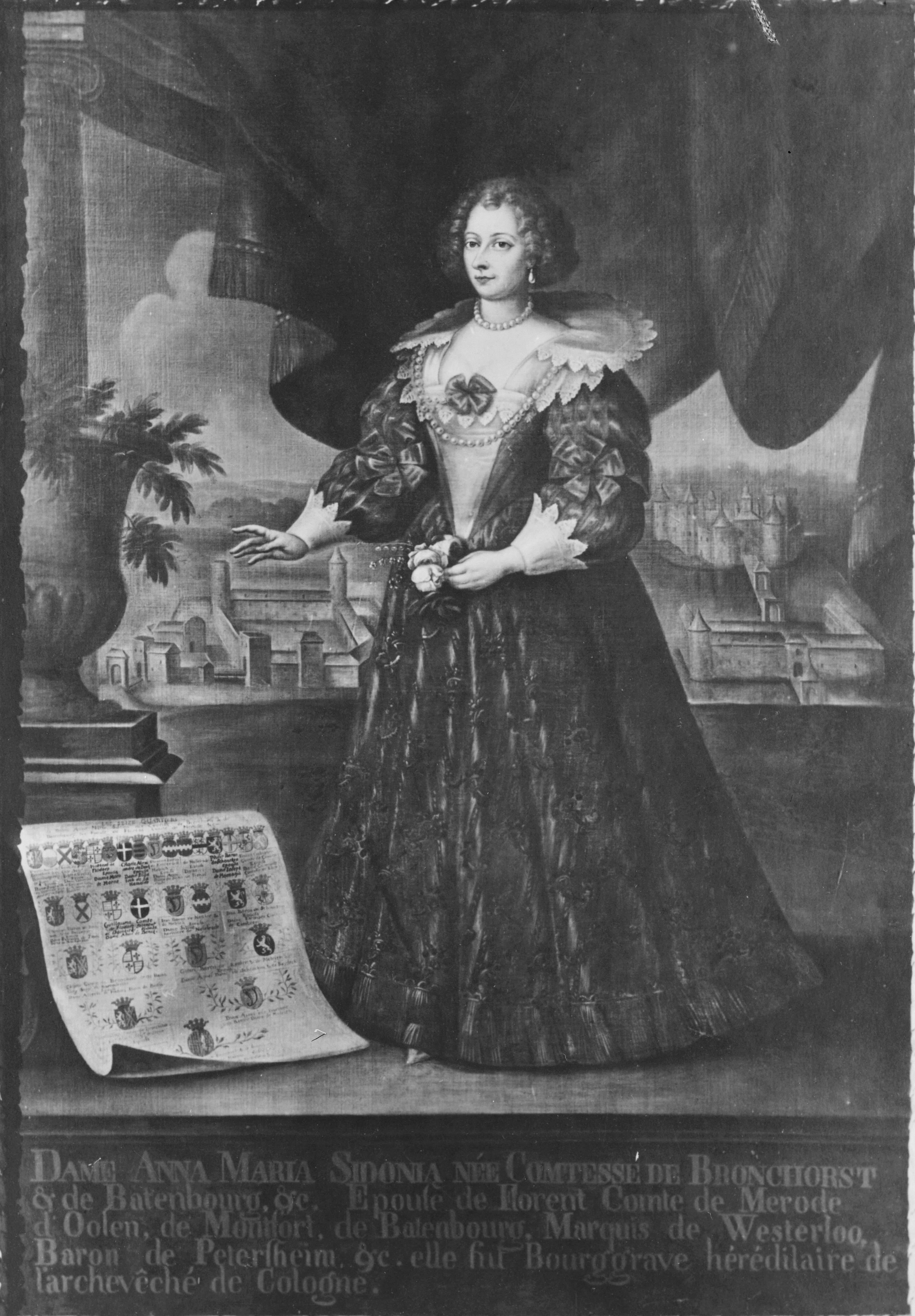 Anna Maria Sidonia van Bronckhorst en Batenburg (1601-1646)